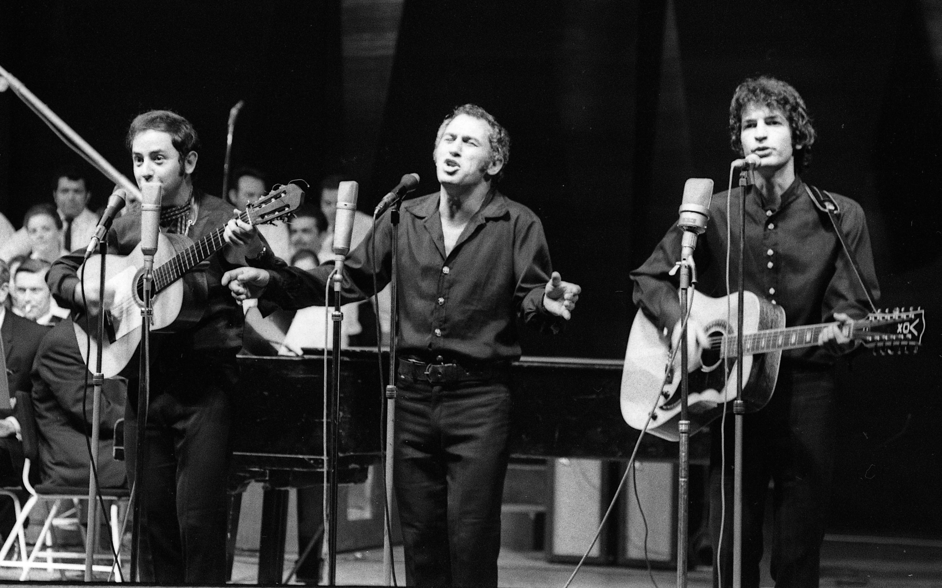 The First Hasidic Festival.